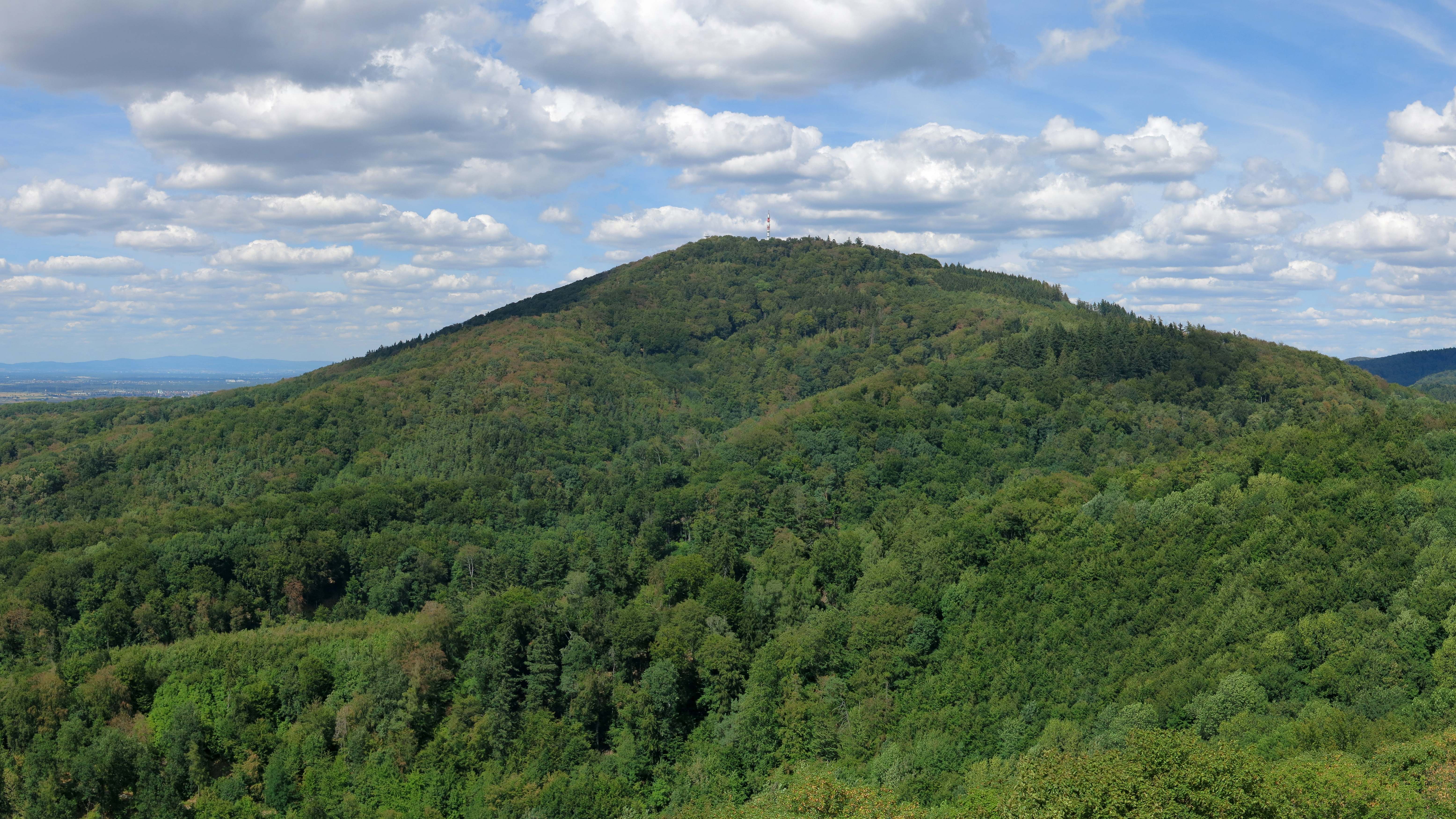 The Melibokus in the Odenwald, seen from Auerbach Castle, Hesse